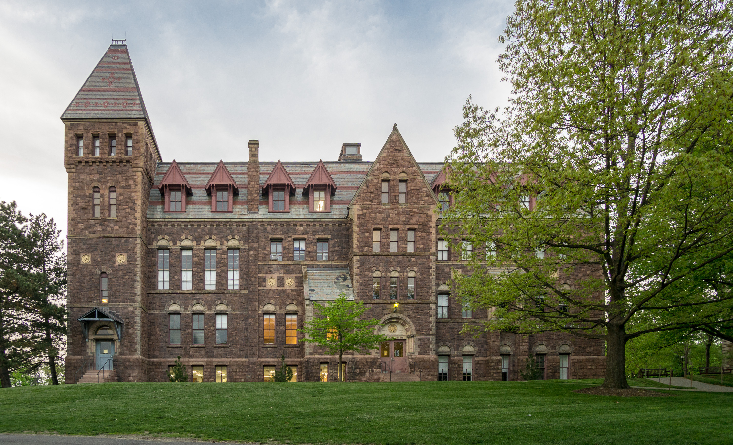 Olive Tjaden Hall, Cornell University, Ithaca, NY